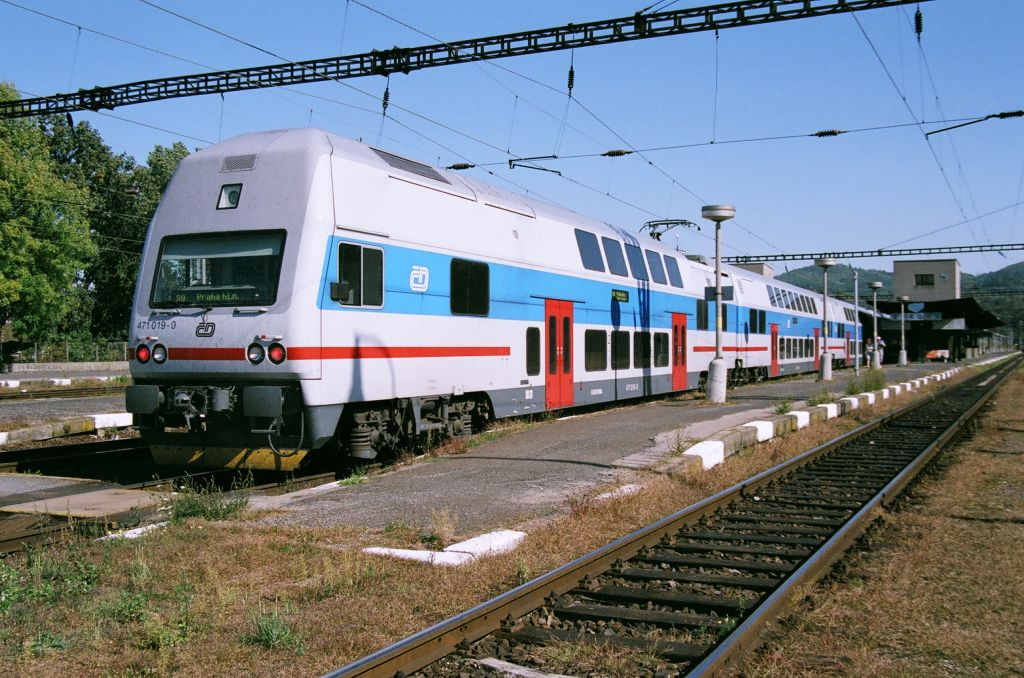 Subject: Czech two-storeyed electrical railway motor car class 471, powered by 3000V DC. Overall view